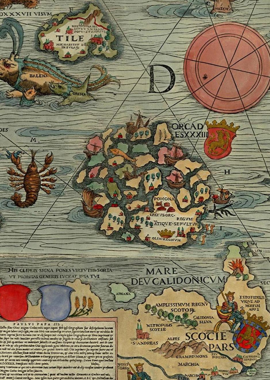 Description The Orkney Islands, Caithness on the Carta Marina Date1539SourceDetail from the Carta Marina, Image:Carta Marina.jpegAuthorOlaus Magnus (1490-1557)Permission(Reusing this file) Public domain Other versions Image:Carta Marina.jpeg (full image) This is a faithful photographic reproduction of a two-dimensional, public domain work of art. The work of art itself is in the public domain for the following reason: This work is in the public domain in its country of origin and other countries and areas where the copyright term is the author's life plus 100 years or less. You must also include a United States public domain tag to indicate why this work is in the public domain in the United States. This file has been identified as being free of known restrictions under copyright law, including all related and neighboring rights. The official position taken by the Wikimedia Foundation is that "faithful reproductions of two-dimensional public domain works of art are public domain".This photographic reproduction is therefore also considered to be in the public domain in the United States. In other jurisdictions, re-use of this content may be restricted; see Reuse of PD-Art photographs for details. The Orkney Islands, Caithness on the Carta Marina